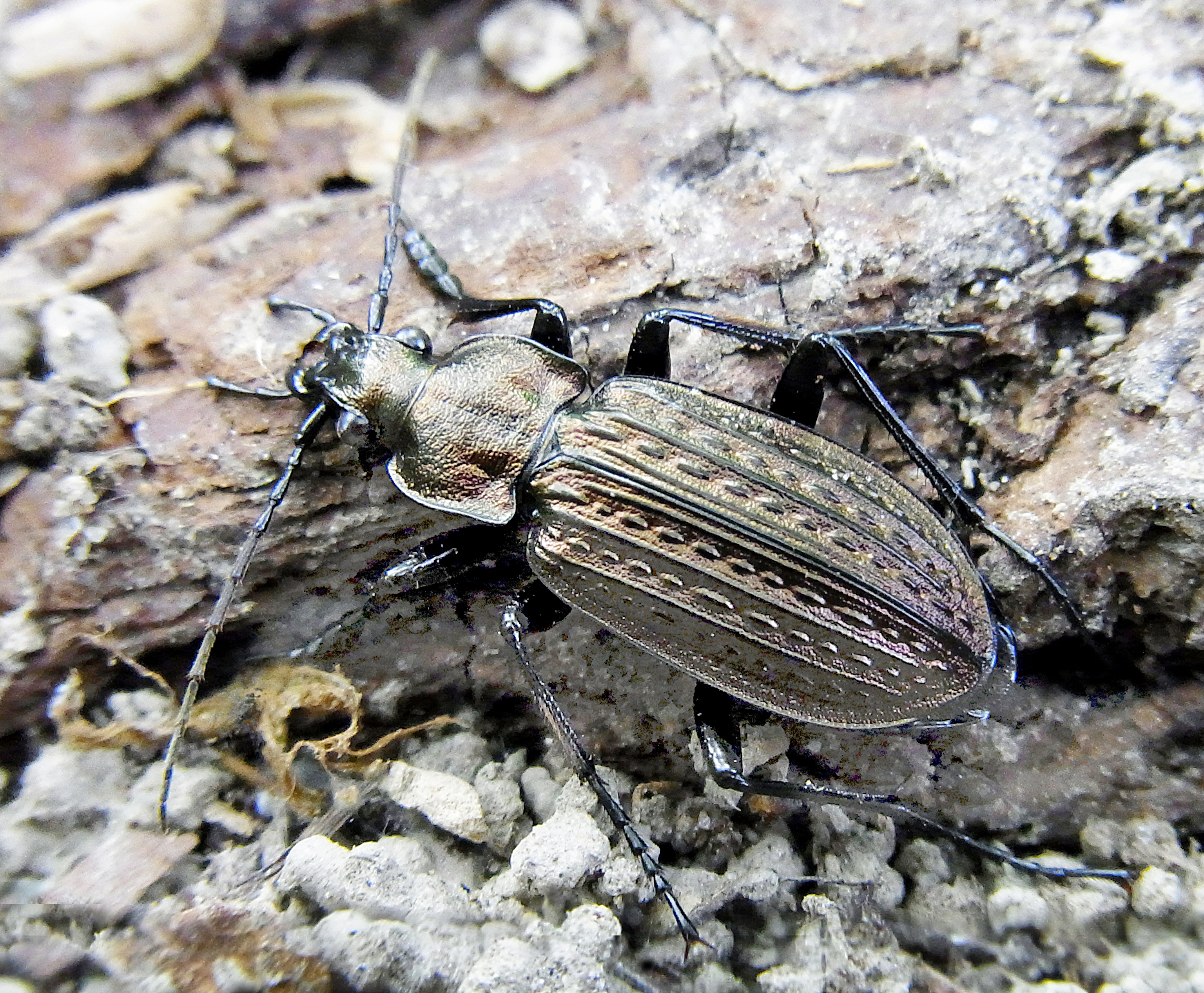 Carabus granulatus from Hungary, island in river Danubius north of town Budapest under dead trunks at 2011-09-0